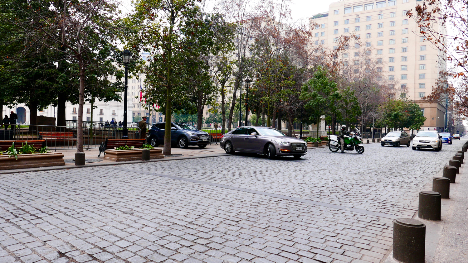 Carabineros de Chile riding BMW R-1200 RT motorcycles escort a VIP leaving La Moneda Palace in Santiago, Chile.